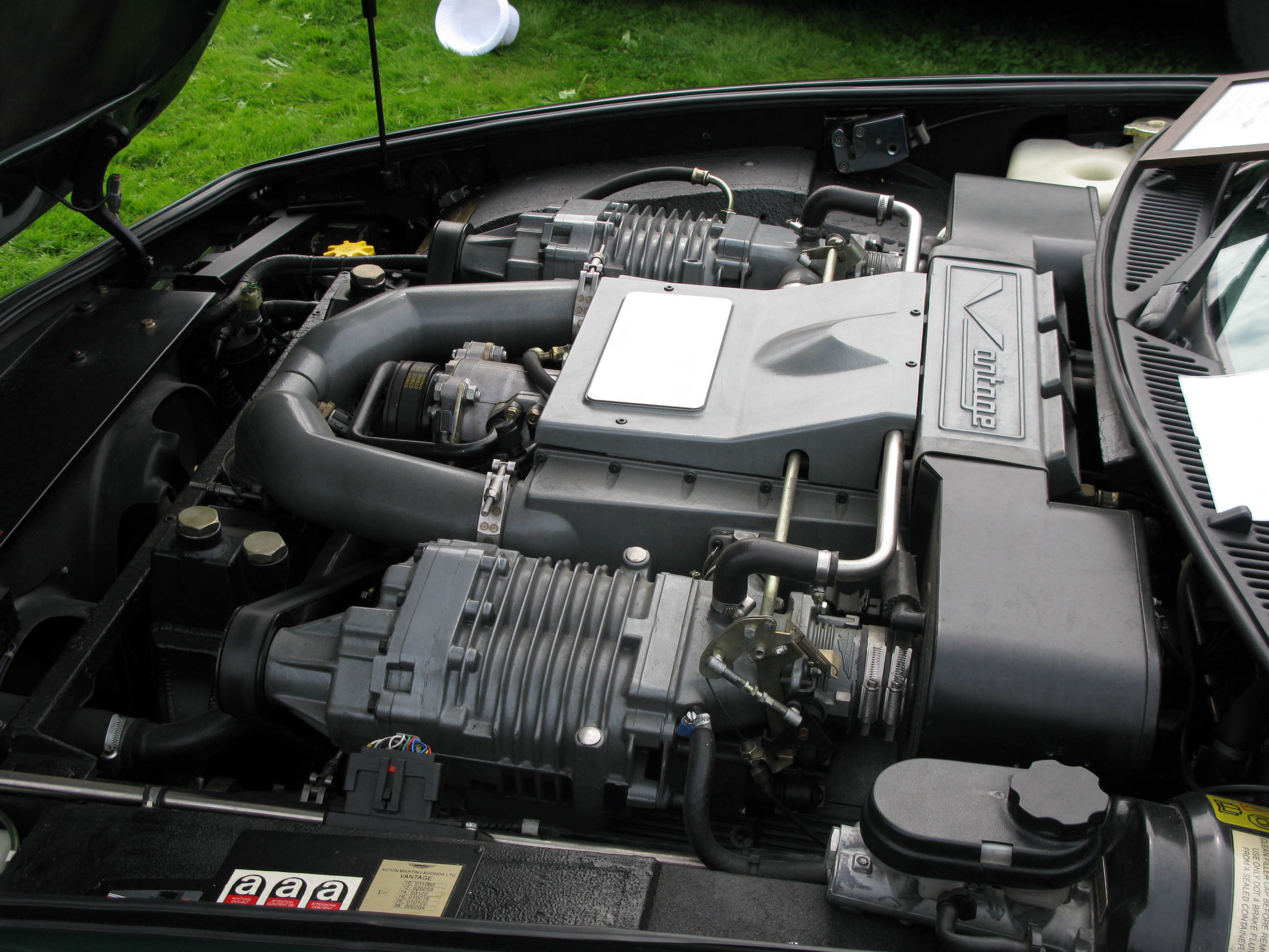 AM Virage Vantage engine with twin Eaton superchargers.Event: Sportbilsdagen i Västervik 2012.